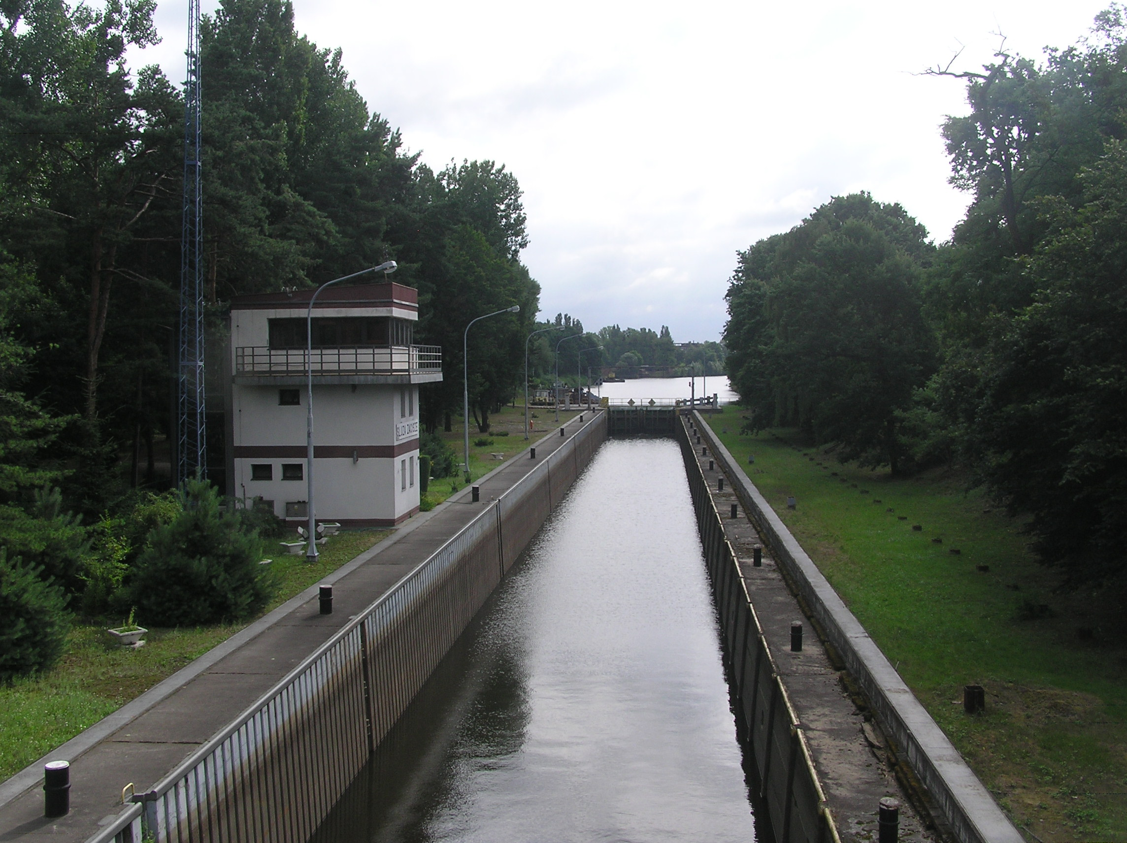 Wrocław, Zacisze Lock